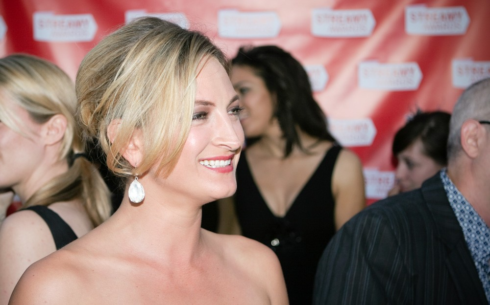 Zoë Bell at the 1st Streamy Awards in 2009.